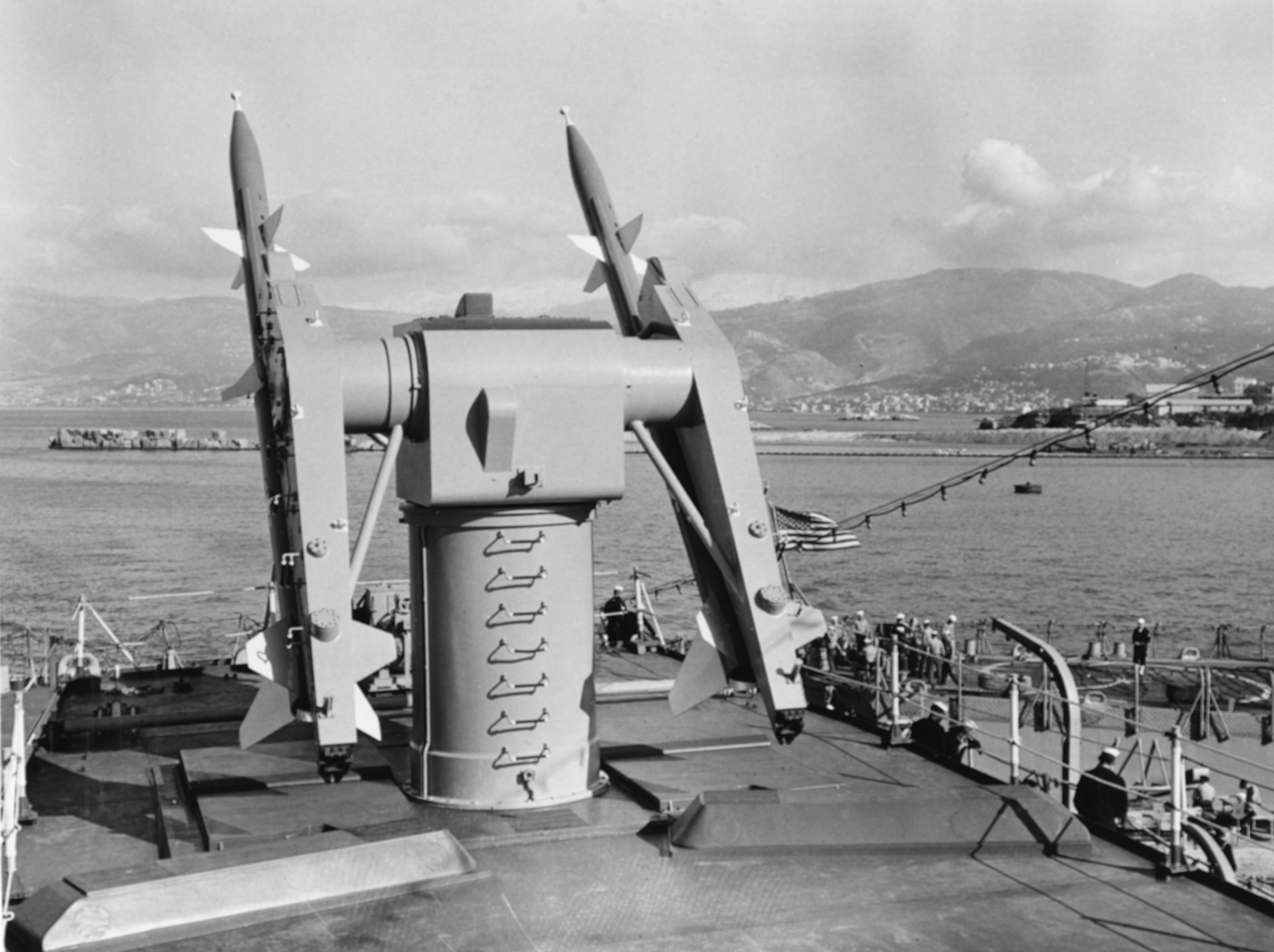 RIM-2 Terrier guided missiles on one of the two missile launchers aboard the U.S. Navy guided missile cruiser USS Boston (CAG-1), while she was moored in the harbour of Beirut, Lebanon, on 3 January 1966.